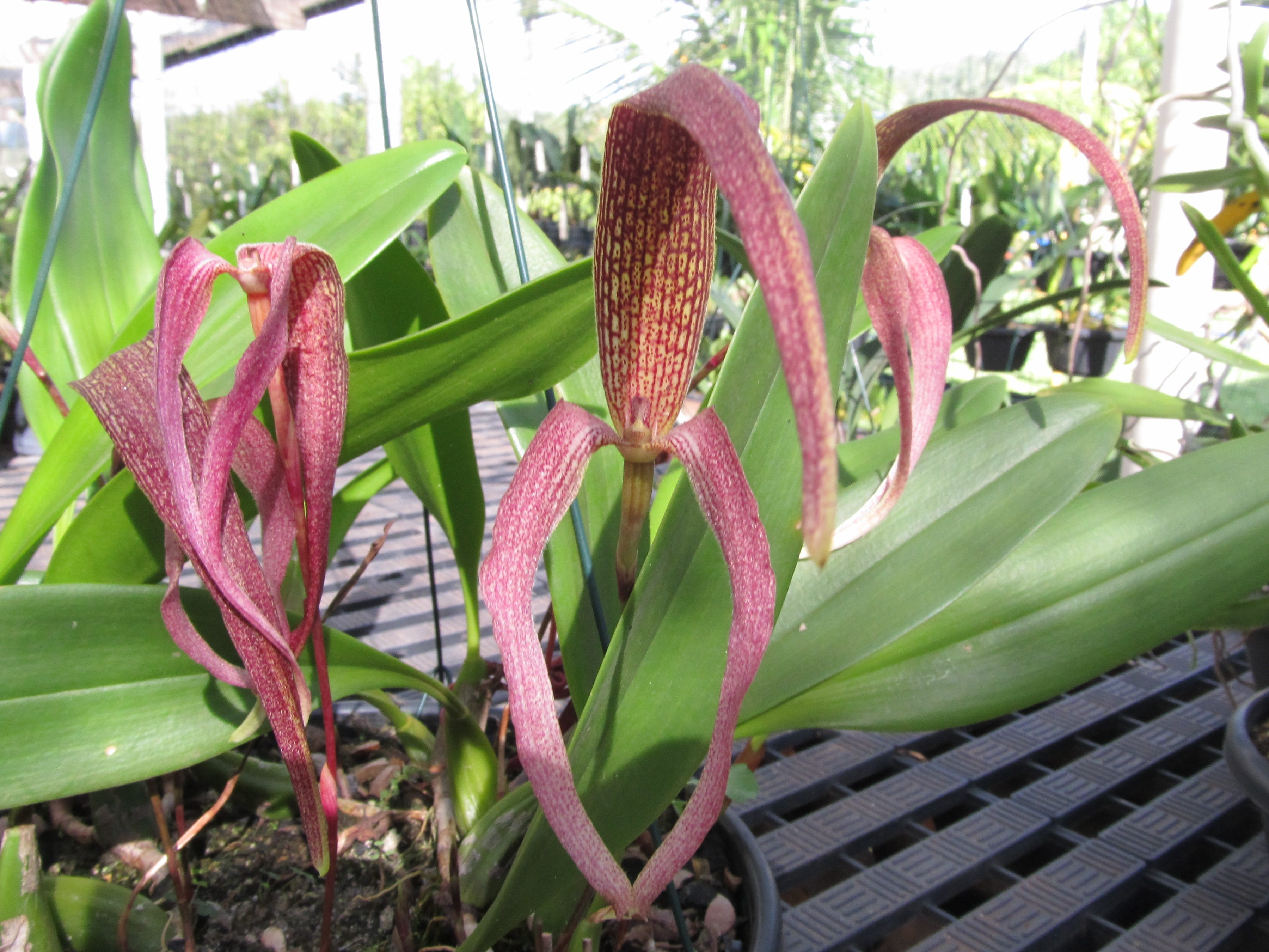 Photo taken by Christian Demetrio & Dalton Holland Baptista